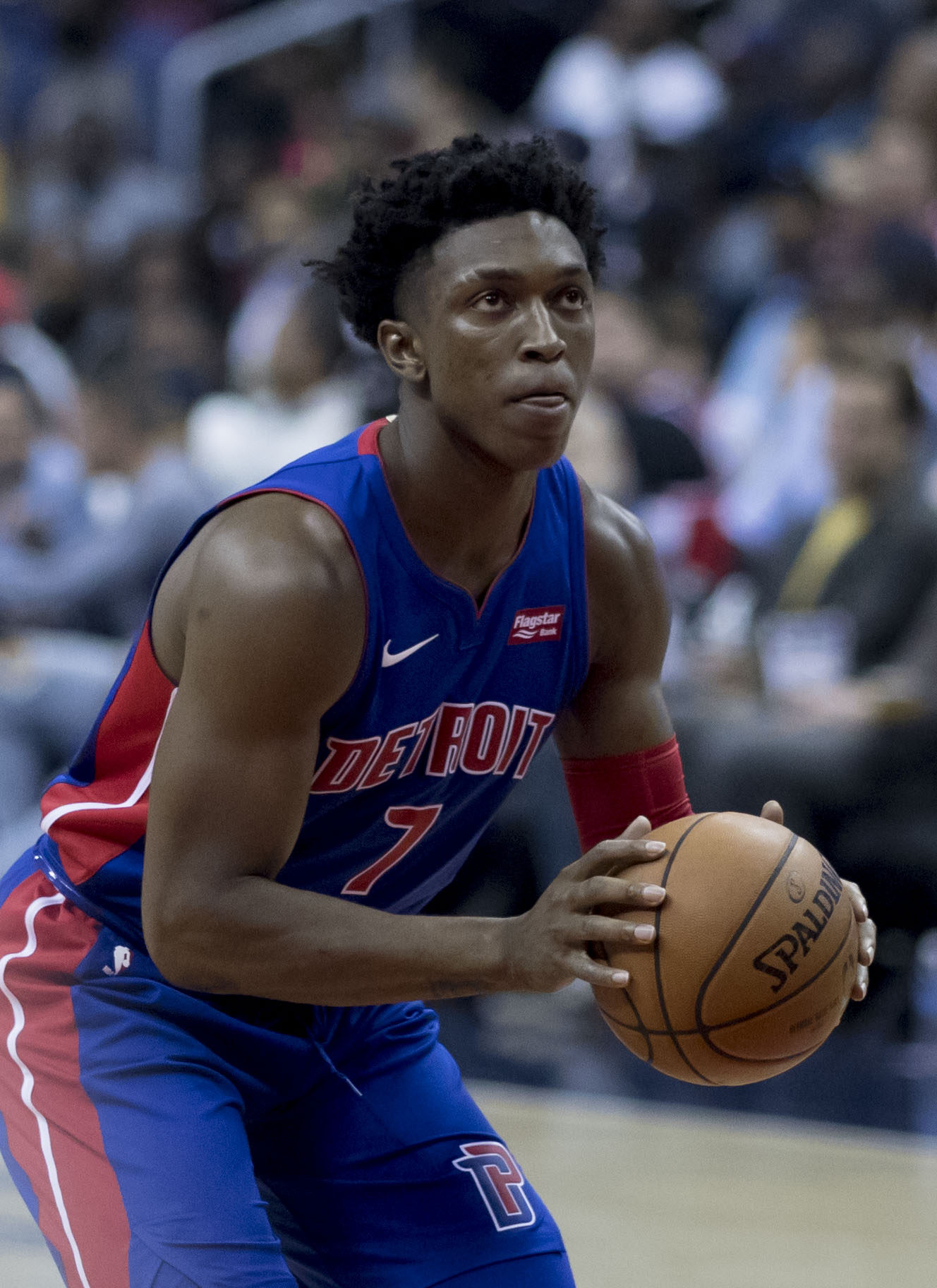 Pistons at Wizards 10/20/17